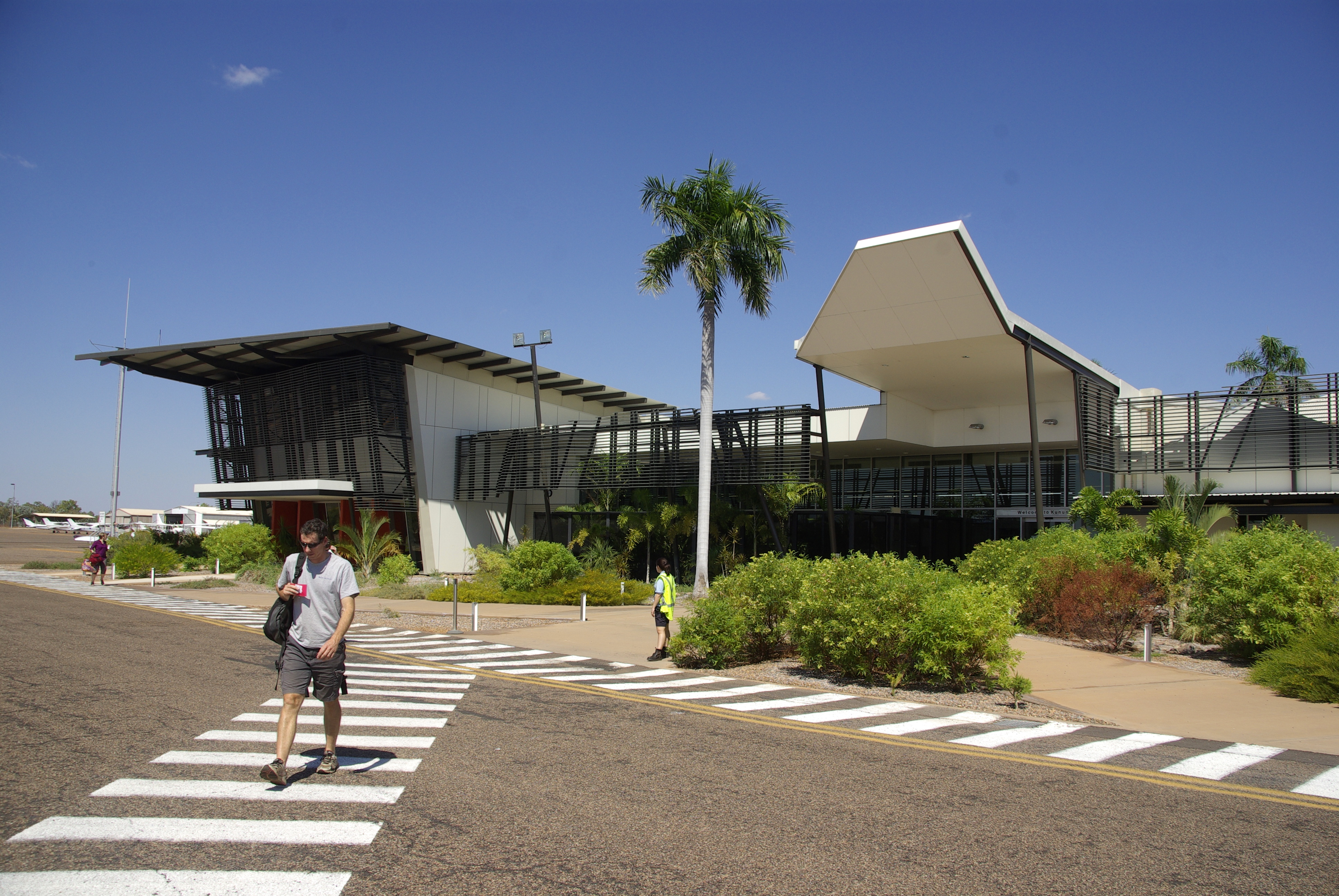 Airside view of East Kimberly Regional Airport (Kununurra)